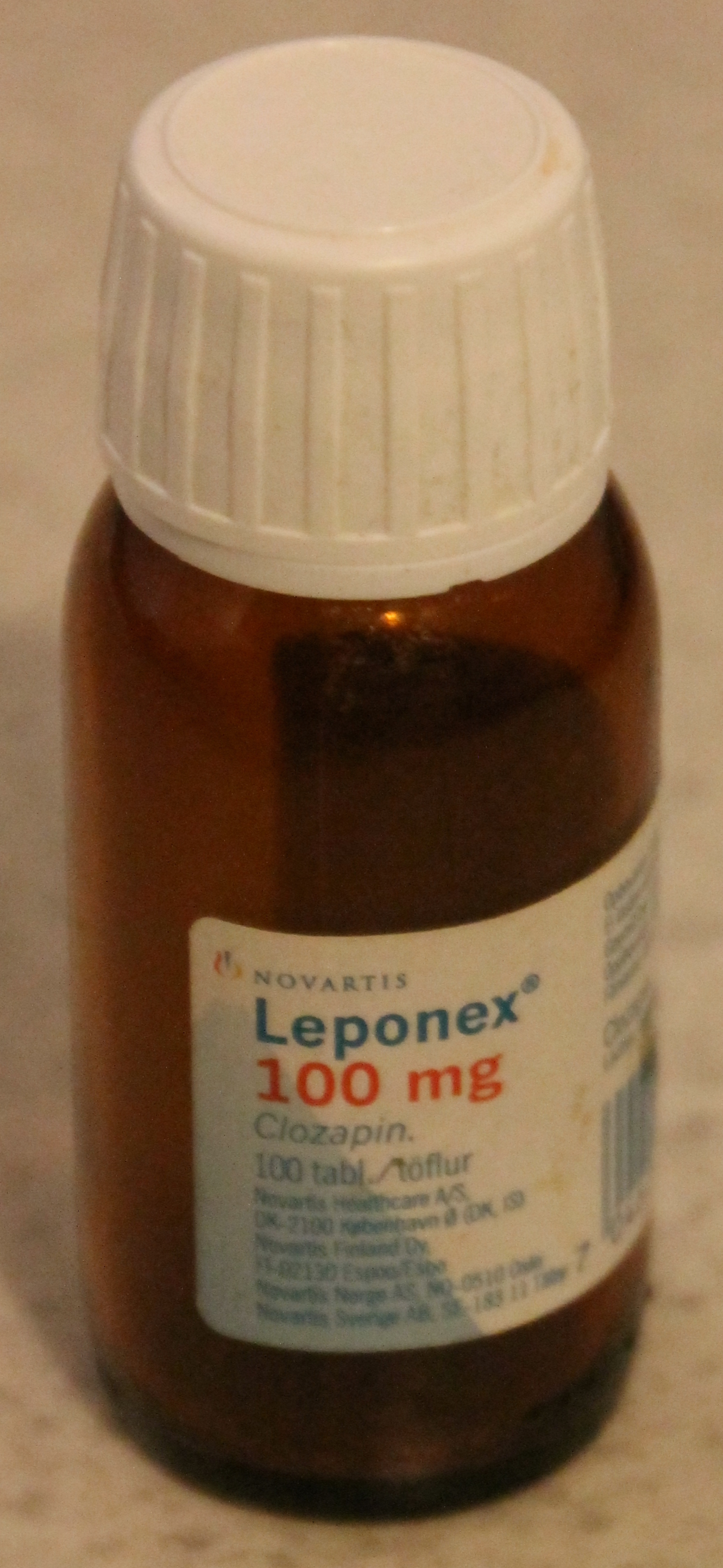 Leponex (clozapine) 100mg -pill bottle.